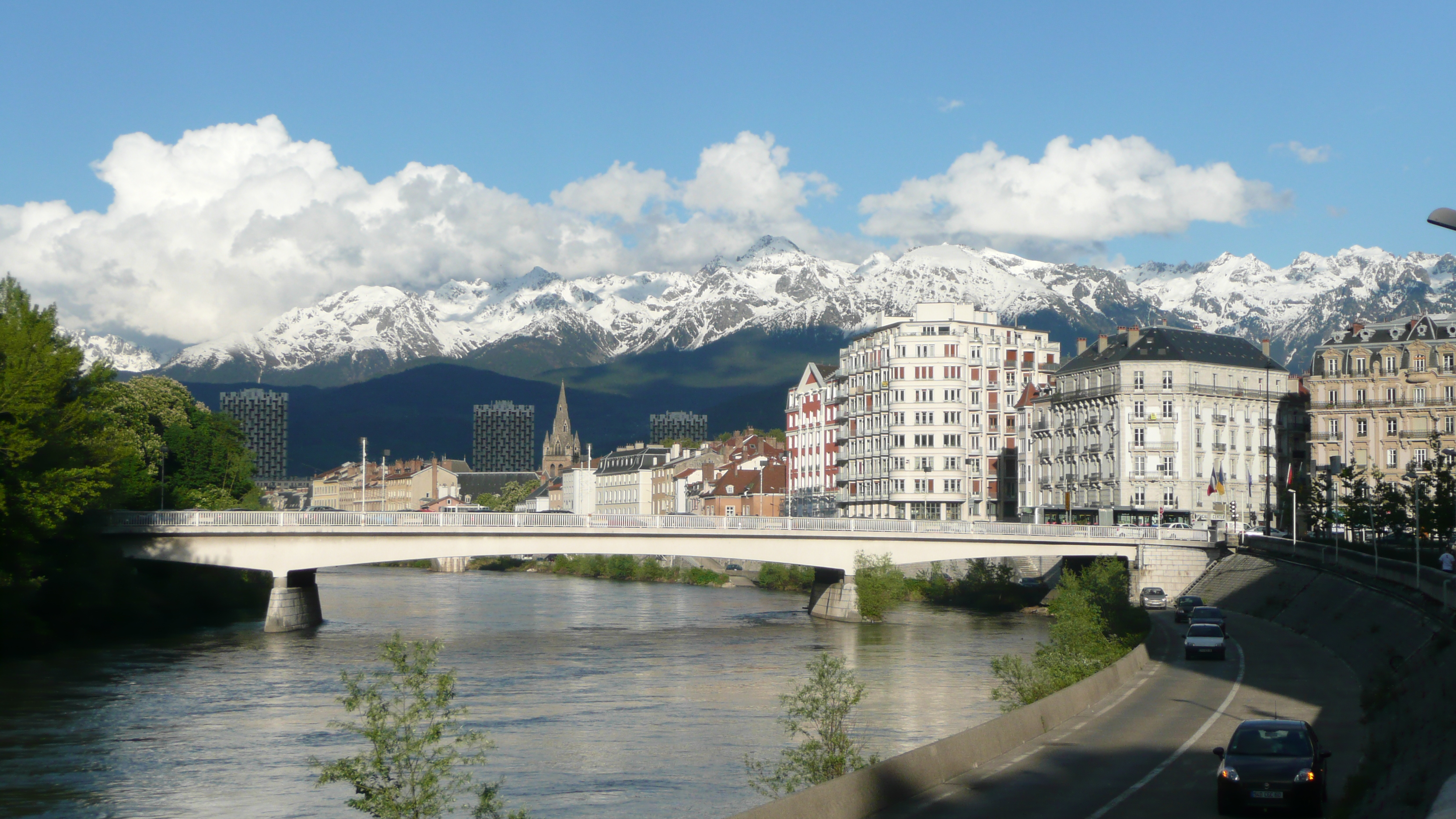 River Isère in Grenoble and view of Alpes